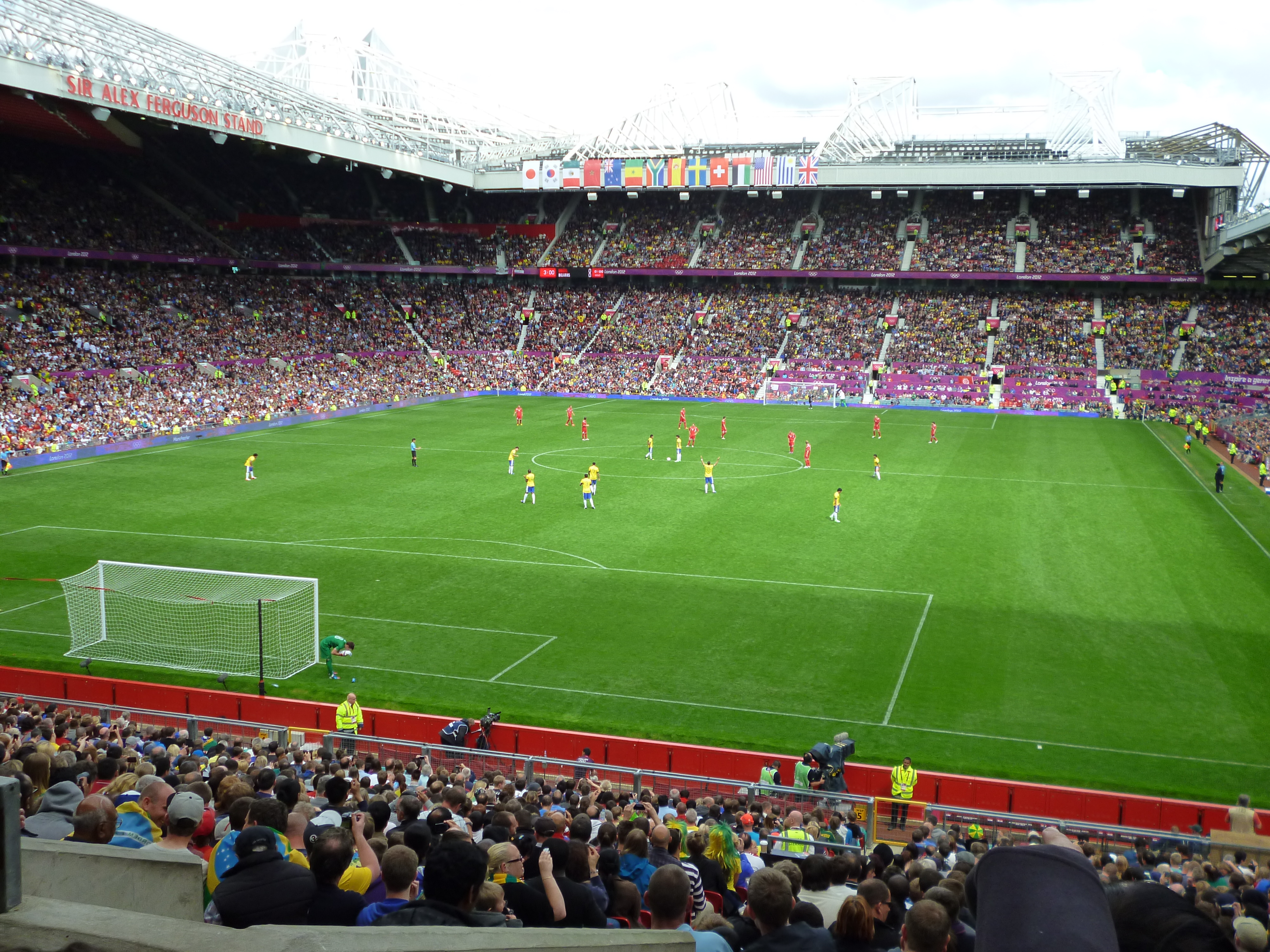 Brazil (yellow) and Belarus (red) kick off their preliminary Olympic football match at Old Trafford on 29 July 2012